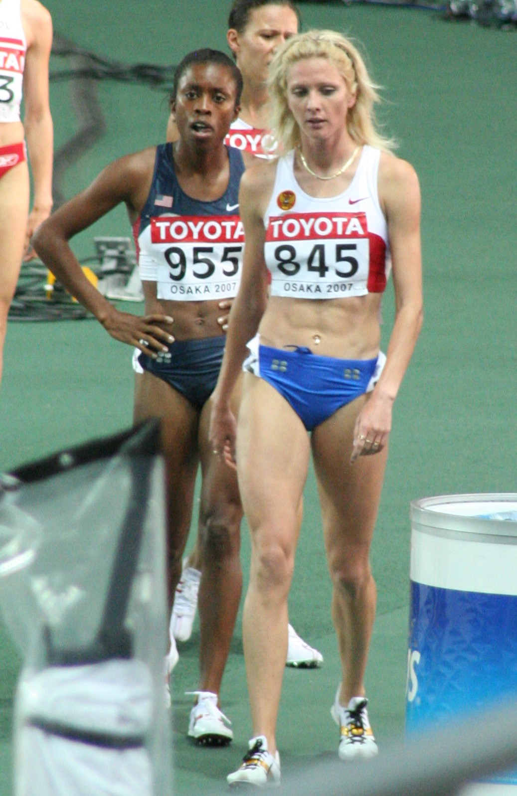 World Athletics Championships 2007 in Osaka - 1500 metres runner Yelena Soboleva (# 845) after her semifinal, (Treniere Clement #955)